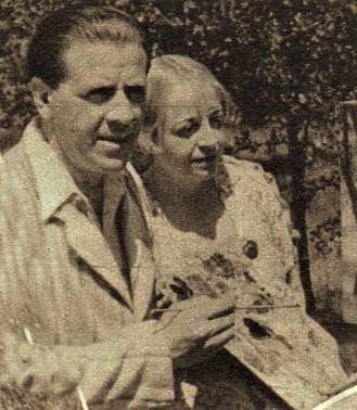 Svatopluk Innemann, Czech movie director, with his wife, 1935